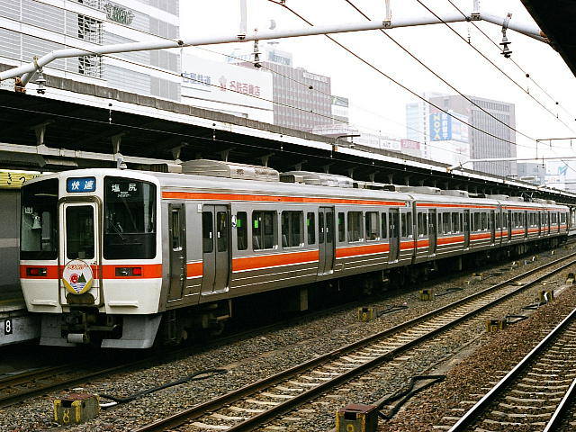 JR Central Series 311 Electric Multiple Unit. Use "Nice Holiday Kisoji" In Nagoya station.